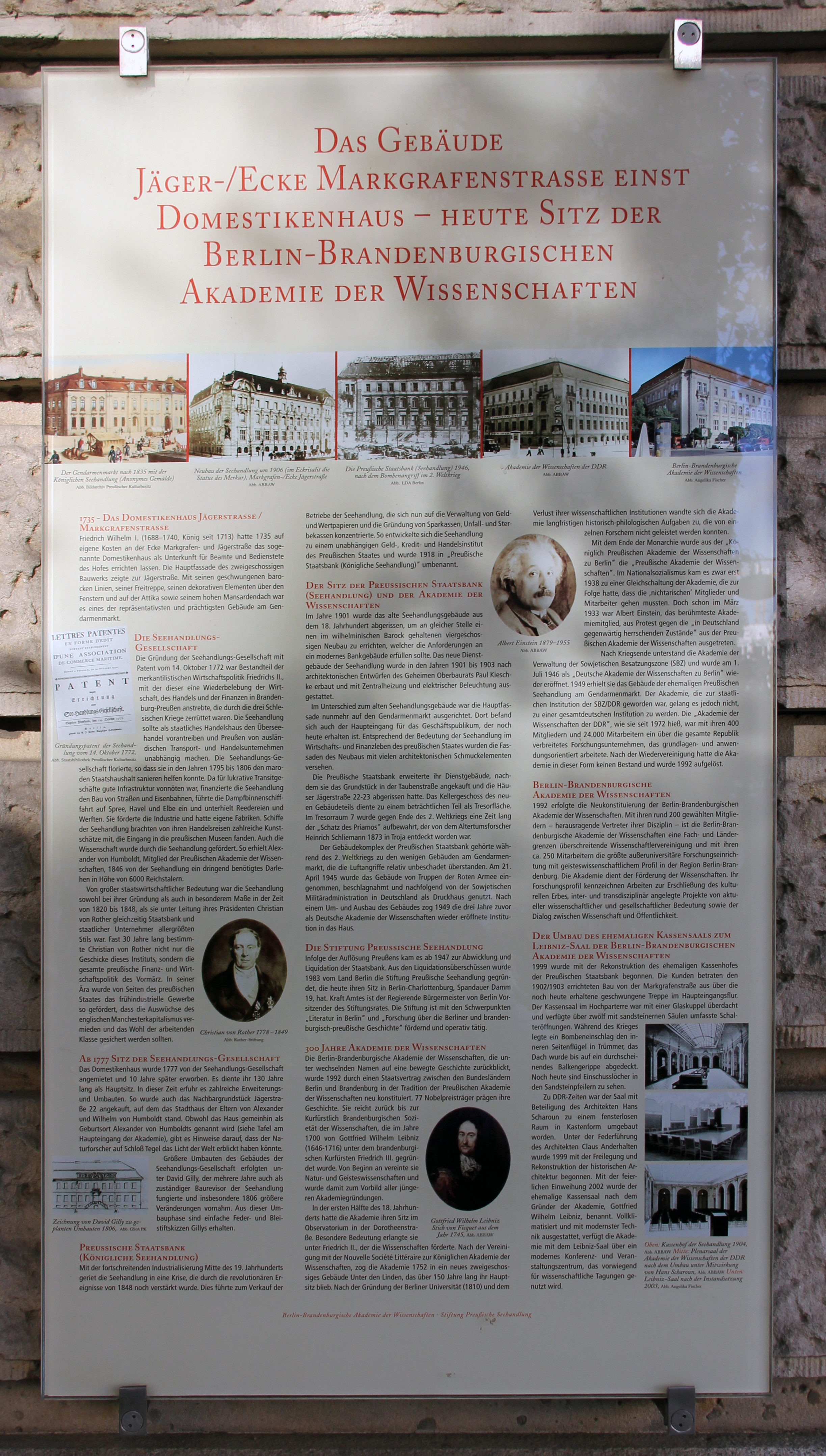 Memorial plaque, Akademie der Wissenschaften, Markgrafenstraße 38, Berlin-Mitte, Deutschland